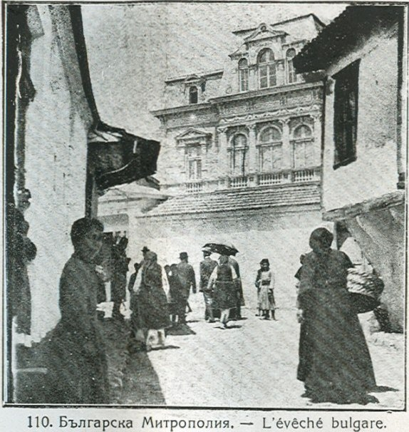 Bitolya bulgarian exarchist bishopic